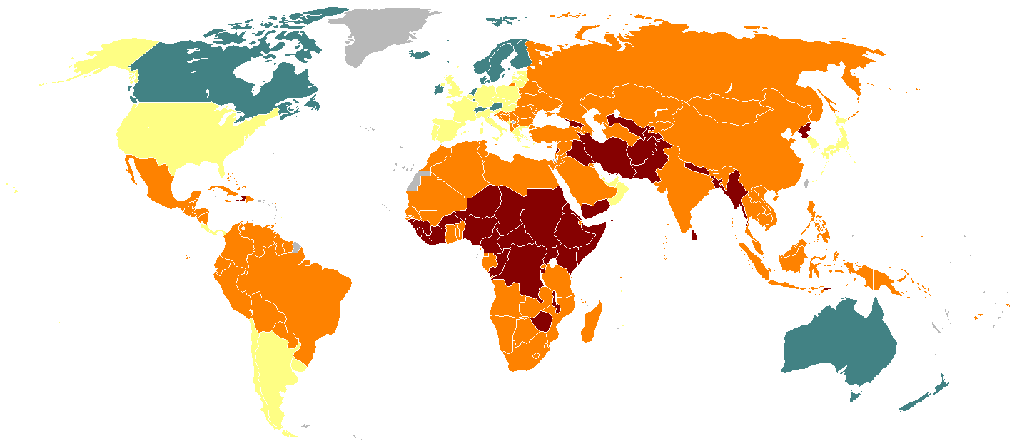 World Map, showing Failed States according to the "Failed States Index 2009"